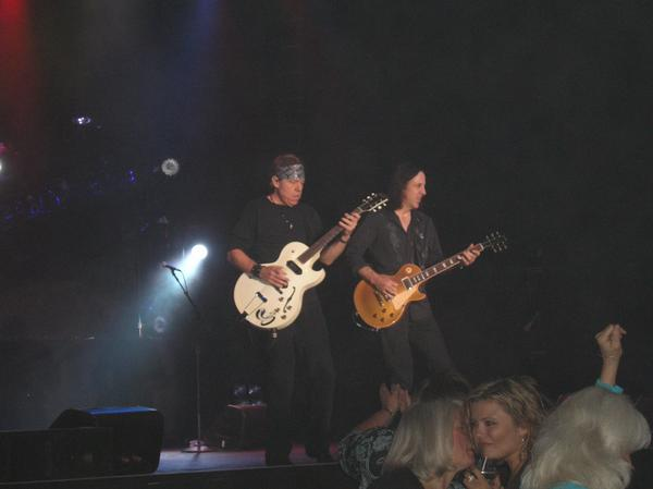 Jim Suhler performing with George Thorogood, August 20th, 2010